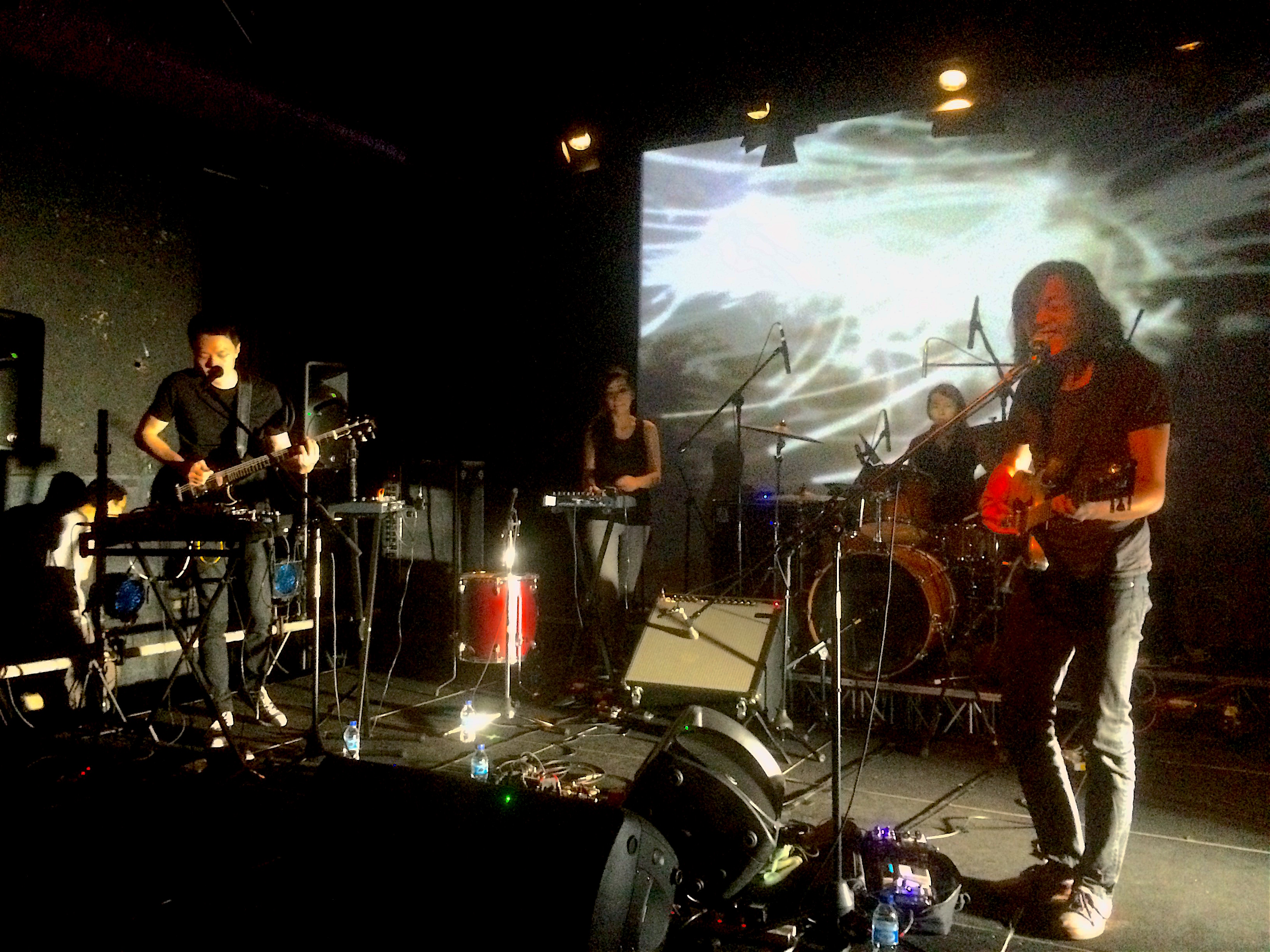 The Observatory, an experimental band based in Singapore, performing their album August is the Cruellest at The Substation, Singapore. From left: Yuen Chee Wai, Vivian Wang, Cheryl Ong and Leslie Low.